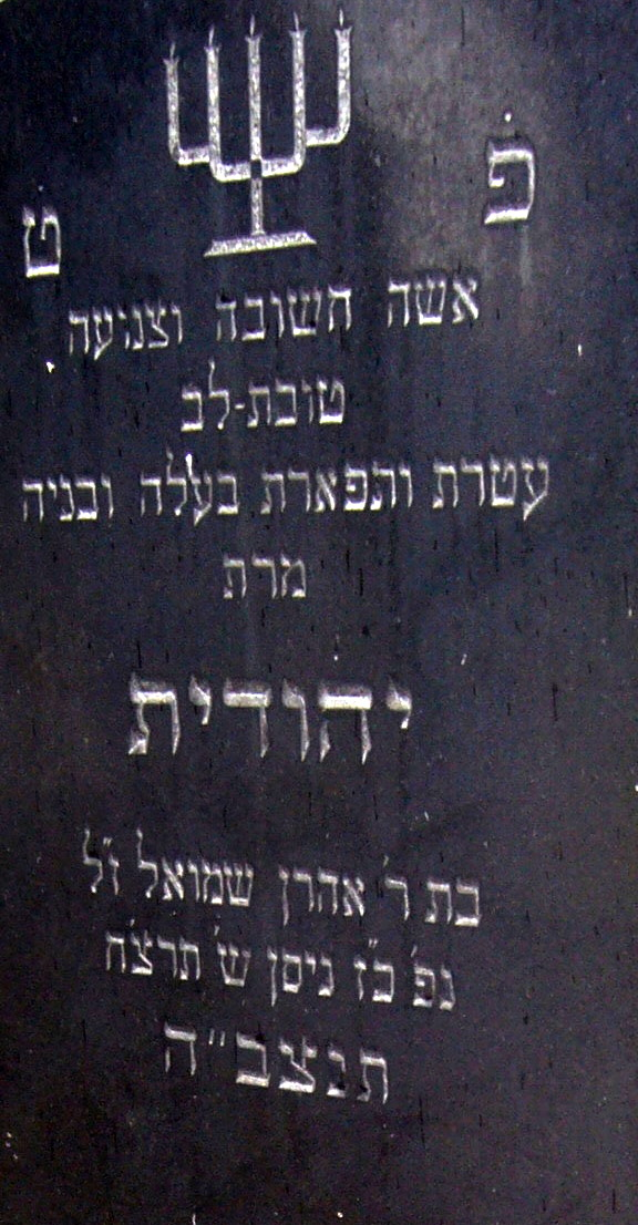 Hebrew inscription on jewish cemetery in Bielsko-Biała - grave of Julia Mückenbrunn